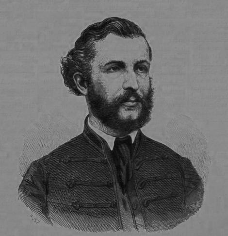 Portrait of Antal Bartal